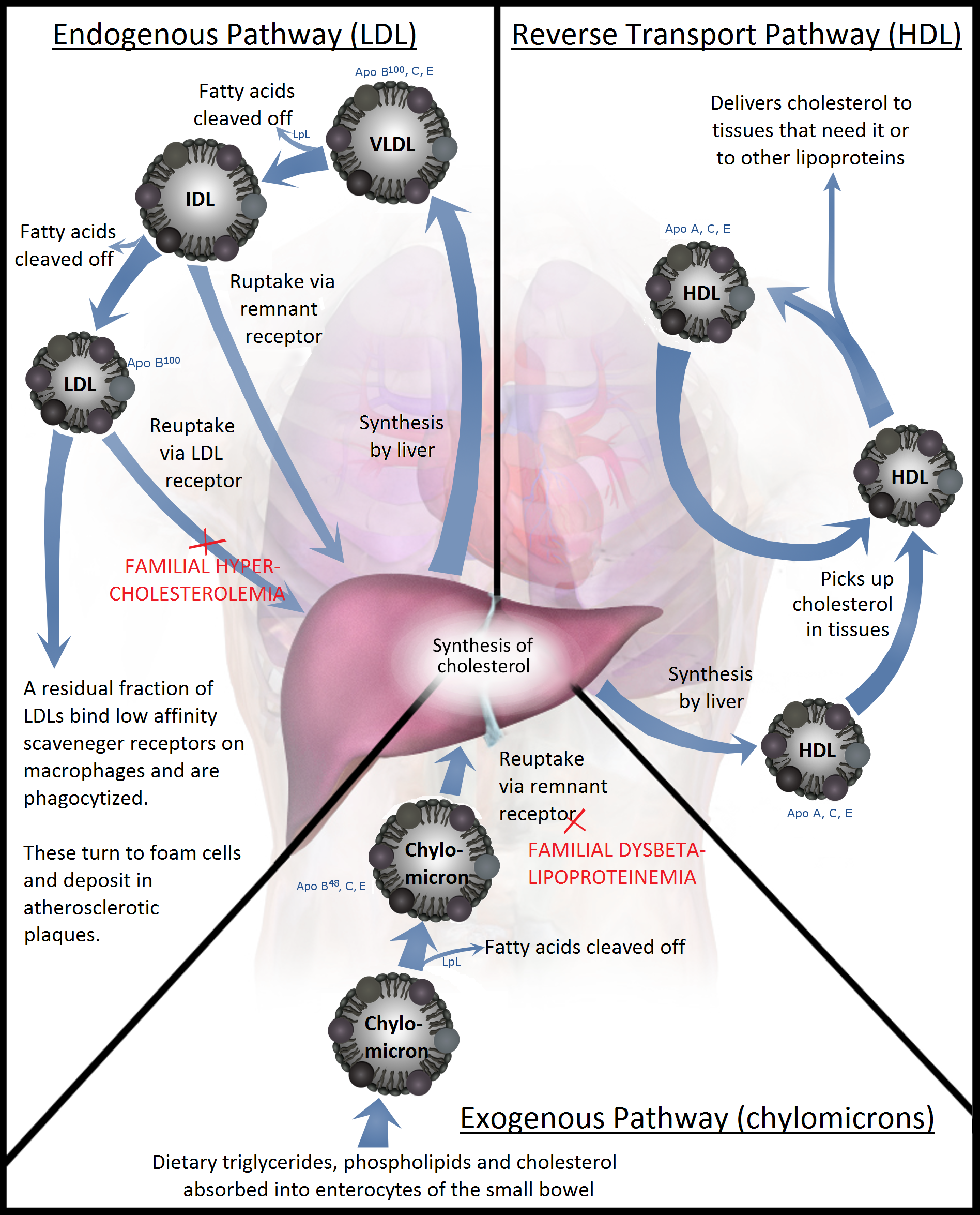 A diagram to the endogenous and exogenous pathways of lipoprotein metabolism.